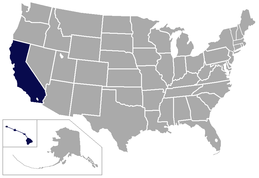 derived from Image:BlankMap-USA-states.PNG; map of states with Big West Conference schools (and their division)